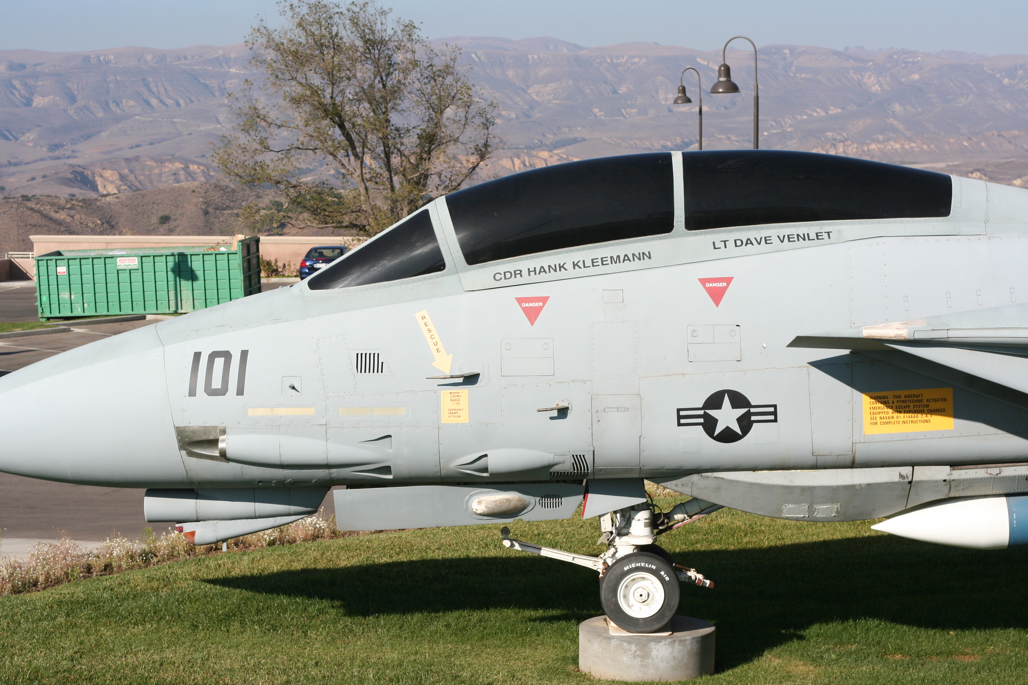 A Grumman F-14A Tomcat (BuNo 162592) at the Ronald Reagan Presidential Library, Simi Valley, California (USA).